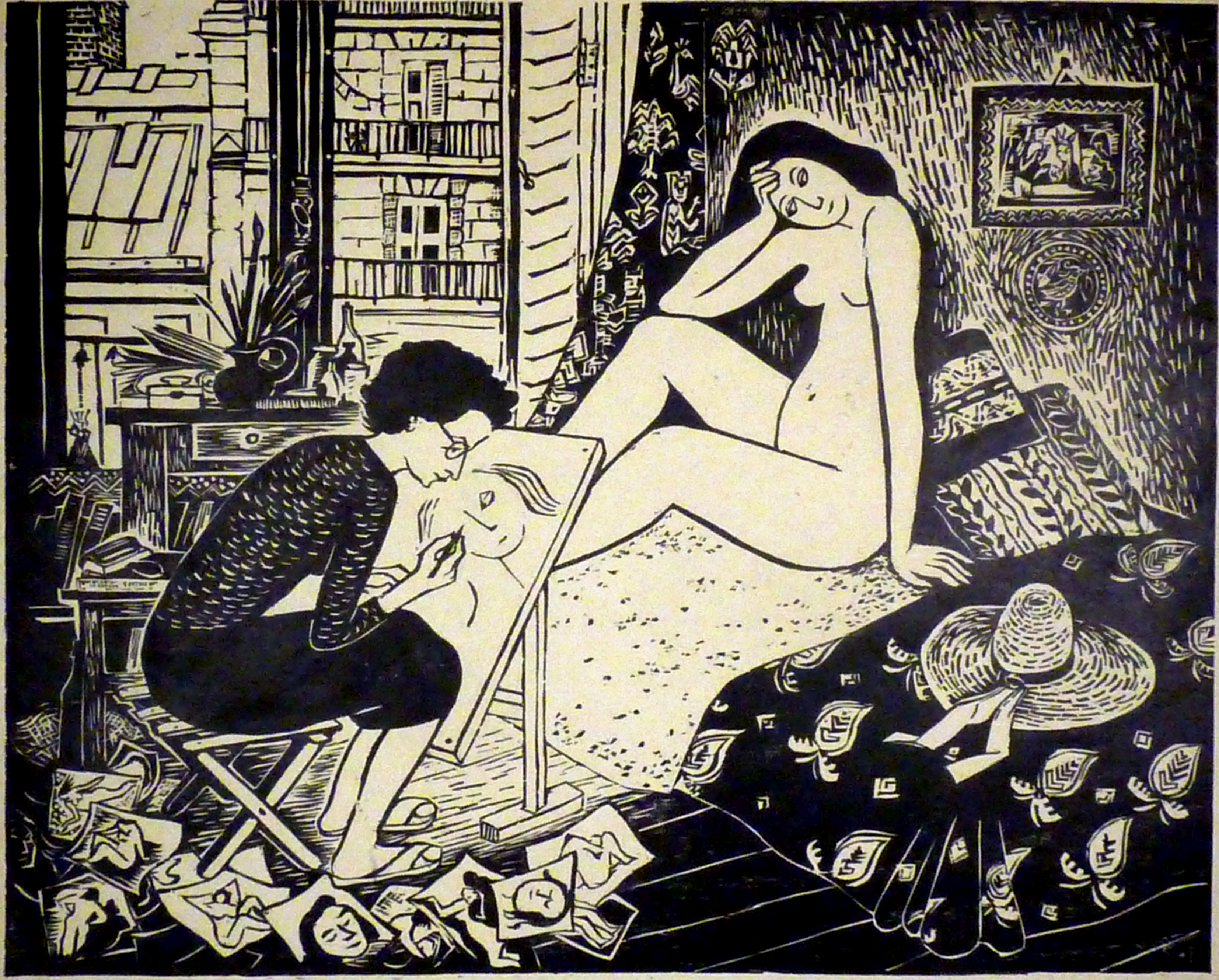 Woodblock, 24 cm x 30 cm, Paris 1952, in an edition of 10. This copy, CAT 339, Studio Suzanne Balkanyi